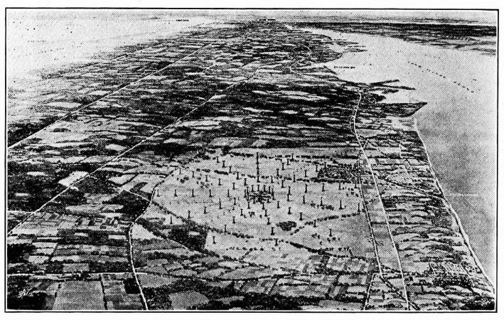 Artist illustration of what the RCA Radio Central facility at Rocky Point, Long Island, New York would look like if completed. Only 2 of the 12 "antenna spokes" were ever actually built